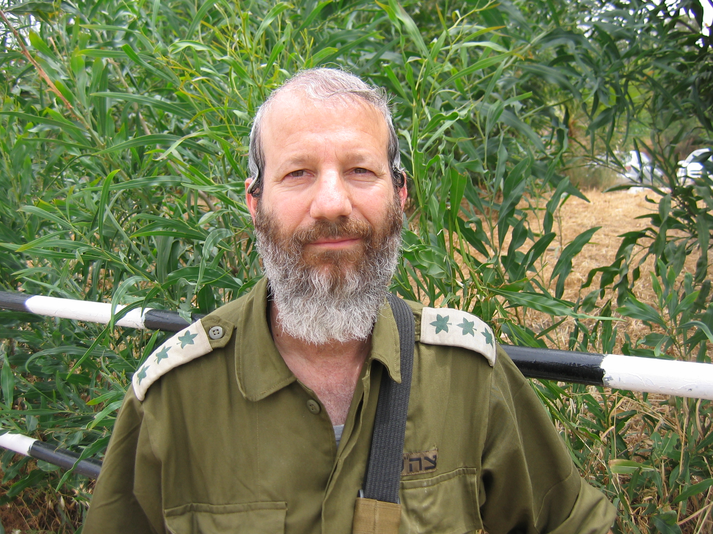 Hoshea Friedman.